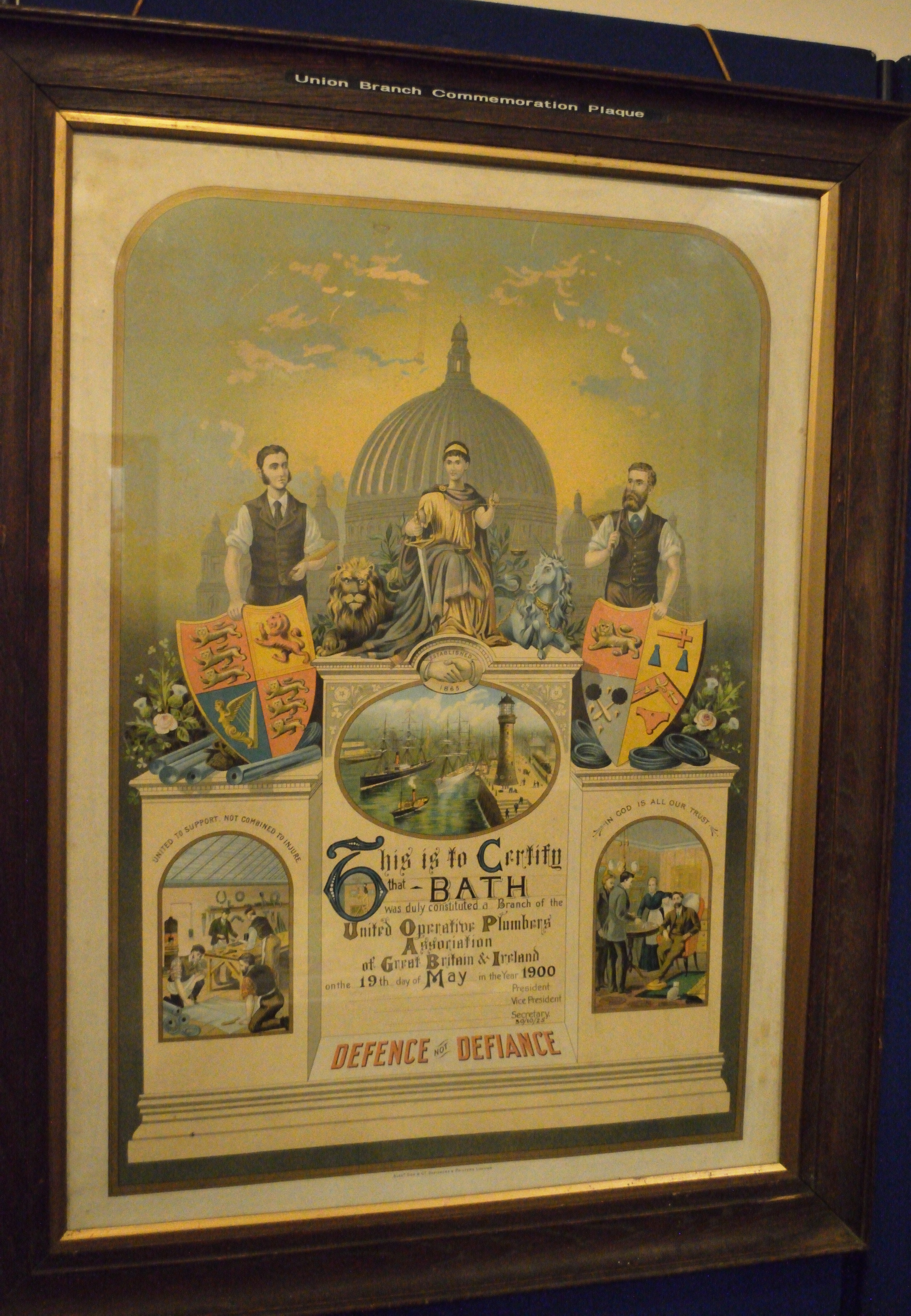 Creation certificate for the Bath branch of the United Operative Plumbers and Domestic Engineers Association of Great Britain and Ireland, dated 19 May 1900. Was on display at a Bath Trades Council event at Twerton Park Football Ground on 18 February 2017.